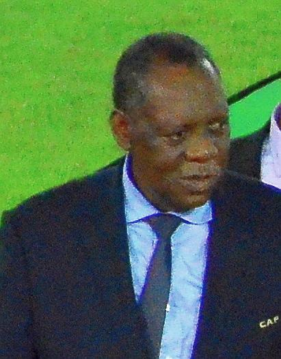 This is a picture of a soccer game (name of it is on file name).